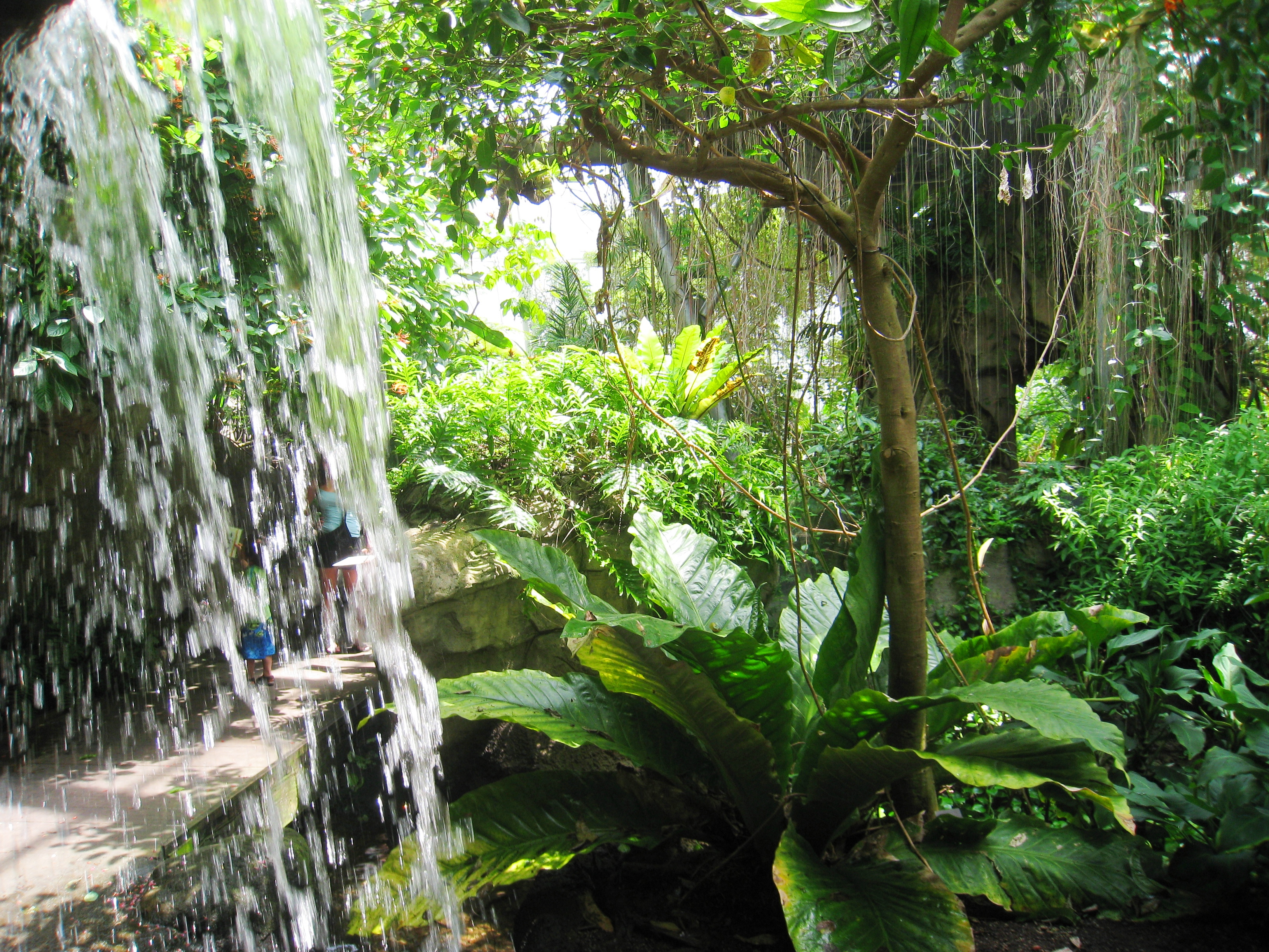 Interior view - Cleveland Botanical Garden, Cleveland, Ohio, USA.